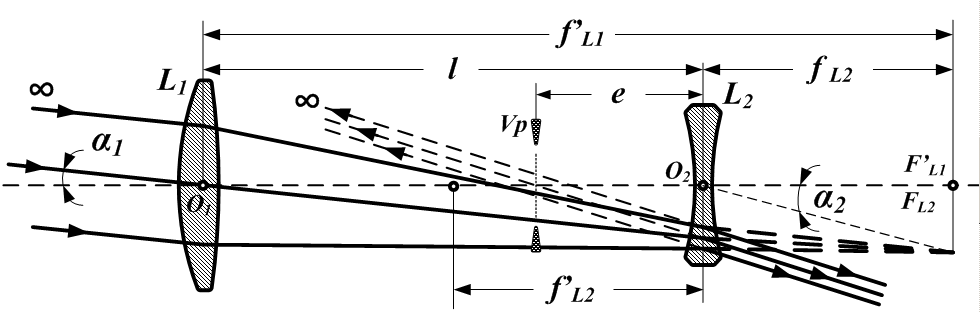 Galilean telescope ray diagram. L1 - Objective lens. L2 - Eyepiece lens. Vp - Virtual exit pupil. l - Distance betven lenses. e - Virtual exit pupil distance of the L2.